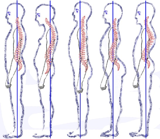 Posture types (vertebral column) classification by Staffel.